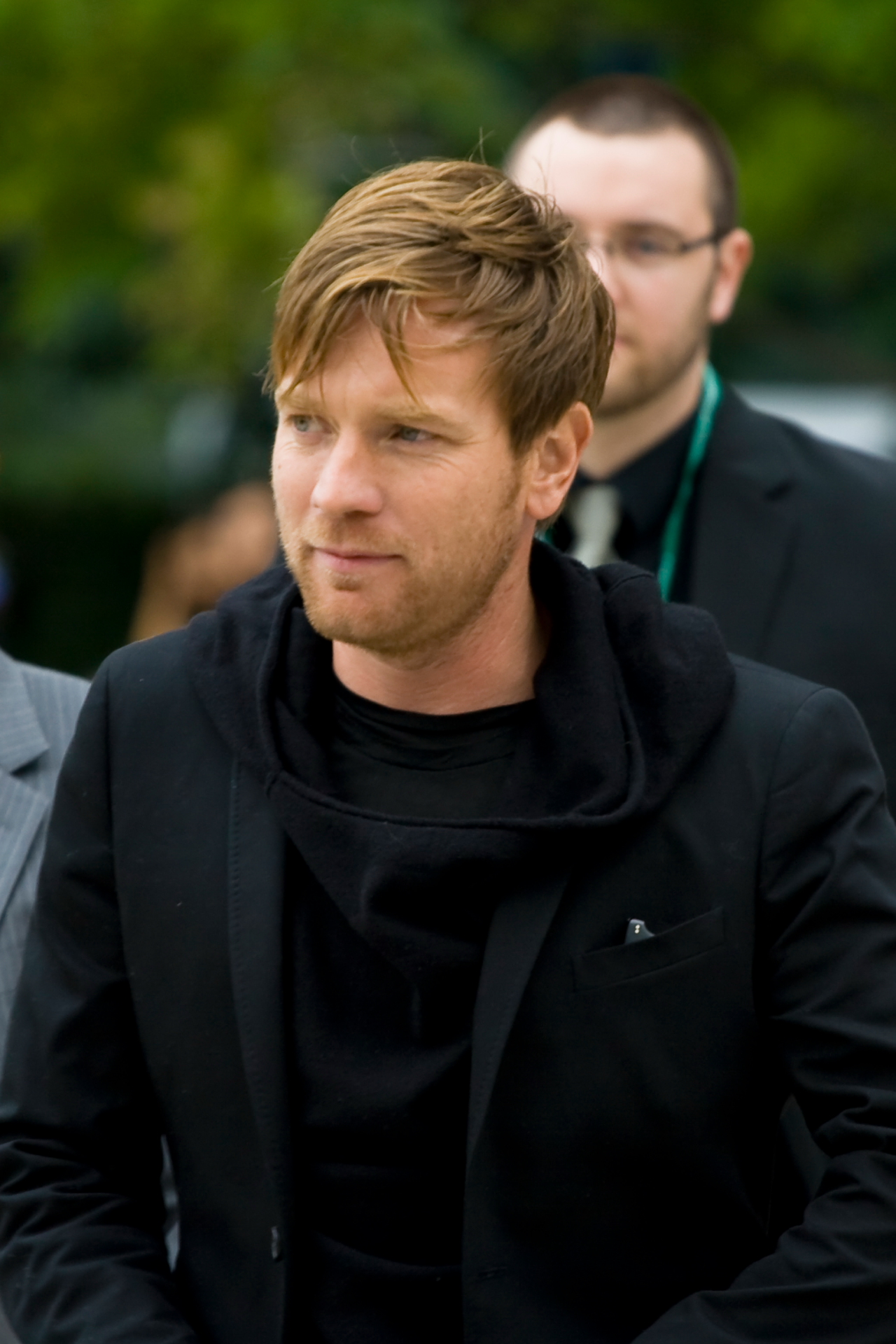 At the premiere of "The Men Who Stare at Goats", directed by Grant Heslov, during the Toronto International Film Festival, 2009.